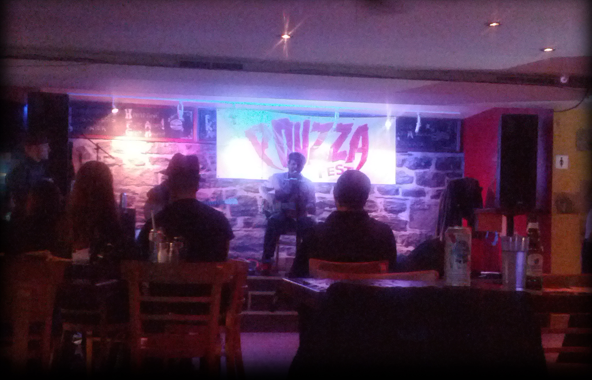 Vic Ruggiero playing solo at Frite Alors restaurant on rue Sainte-Catherine West for Pouzza Fest, a music festival in Montreal, on 17 May 2014.